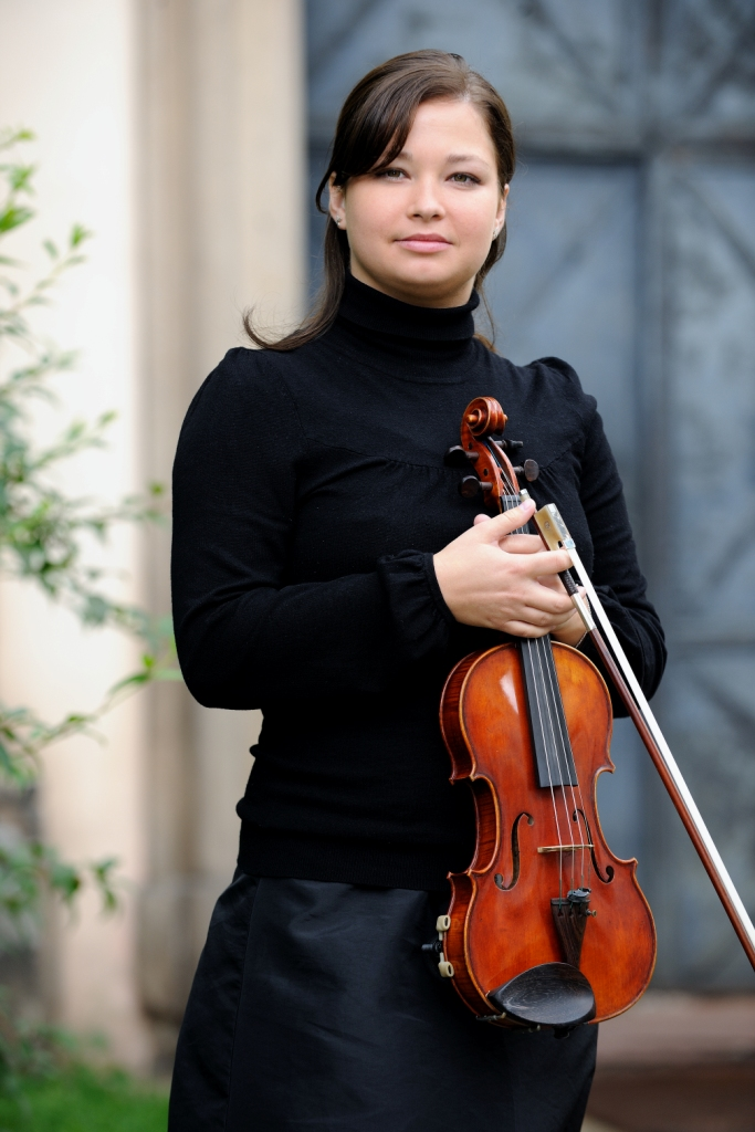 Iva Kramperova, Czech violin player